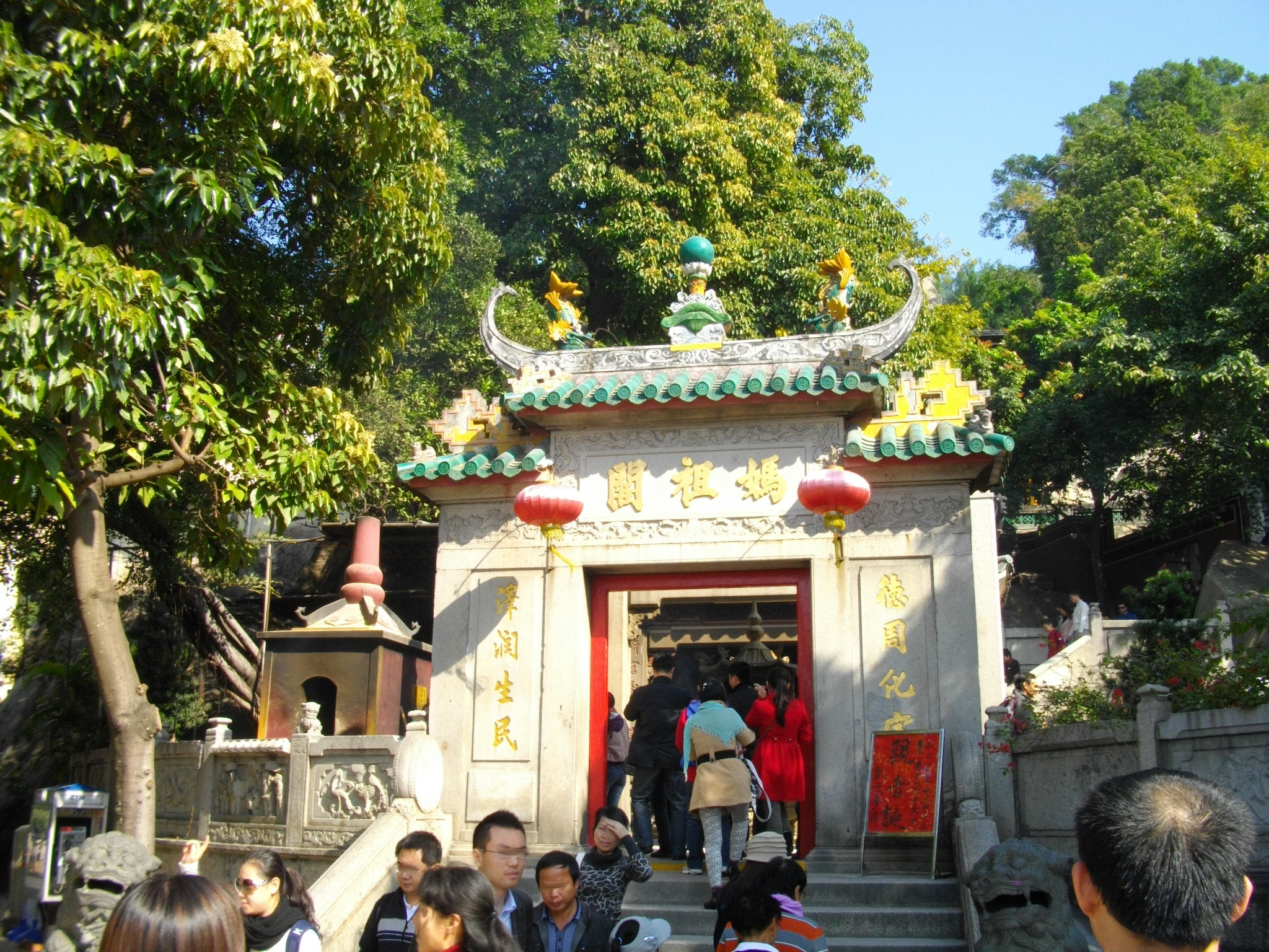 A-Ma Temple (Macau)